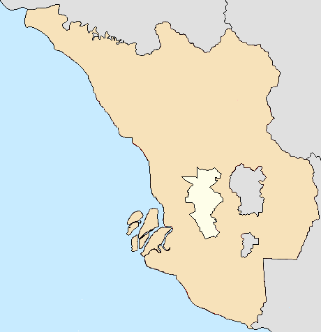 Location map of Shah Alam, the capital city of the Malaysian state of Selangor.